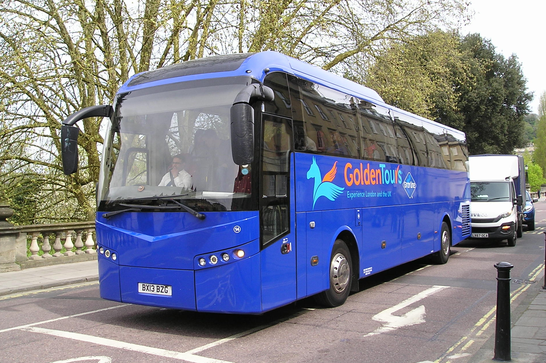 Volvo B11R with Jonckheere C53Ft body, new in 2013. Photographed in Bath, April 2018.